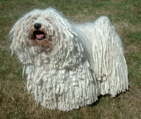 Puli "Ch Banhegyi Ancsa with Mornebrake" (Ancsa) owned by Mr and Mrs Fulton, at the City of Birmingham Championship Dog Show, 30th August 2003